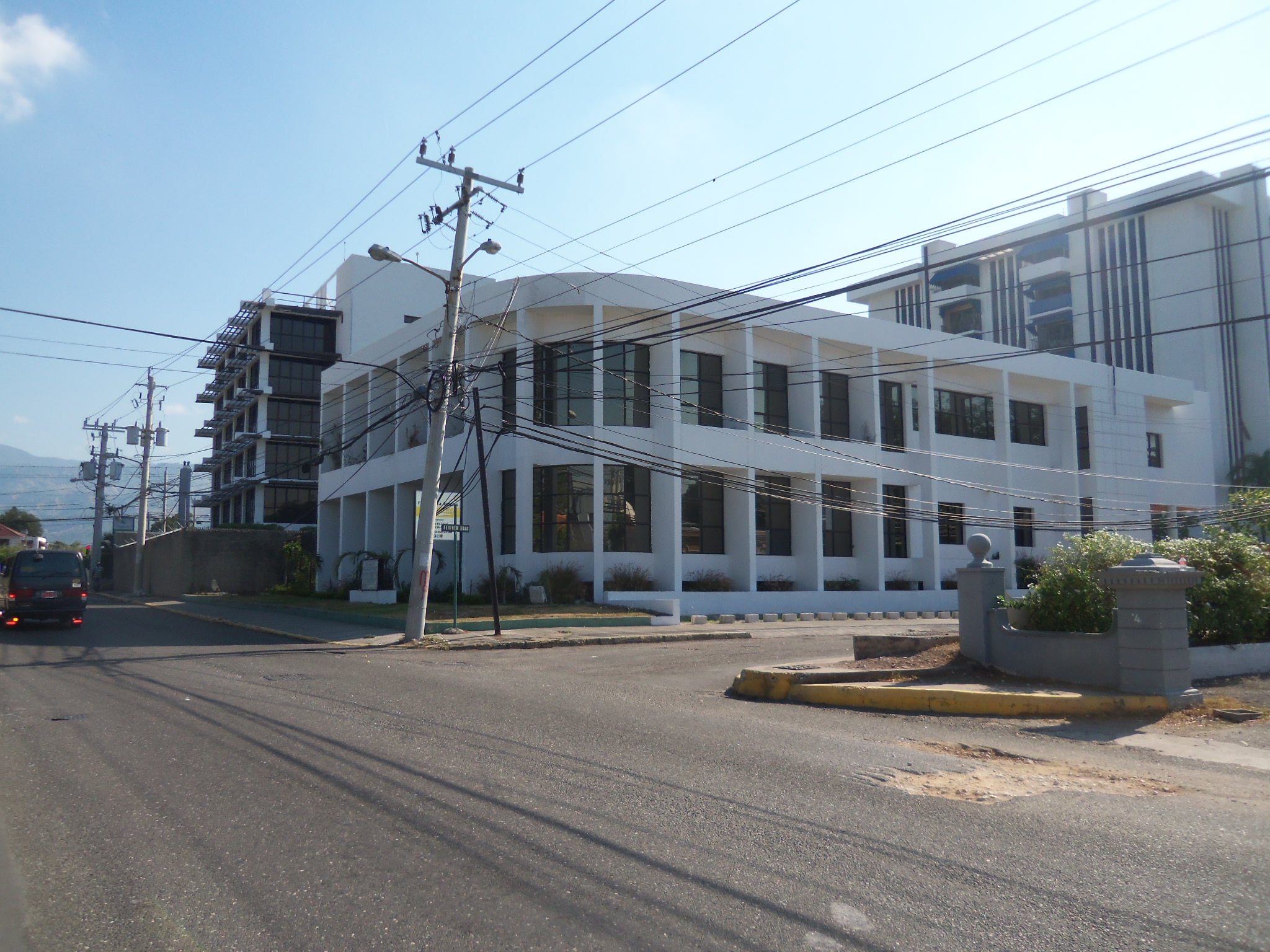 Fly Jamaica Headquarters from the west on Holborn Road